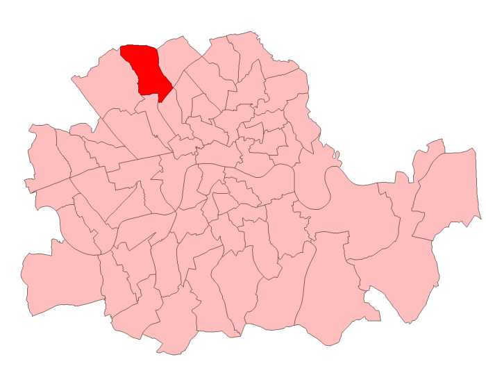 A map of St Pancras North constituency within the London County Council area, as it existed from 1918 to 1949.